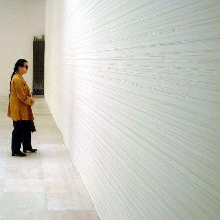 Venice Biennial, North is protected by Tommi Grönlund - Petteri Nisunen Location : Venezia Country : Italy